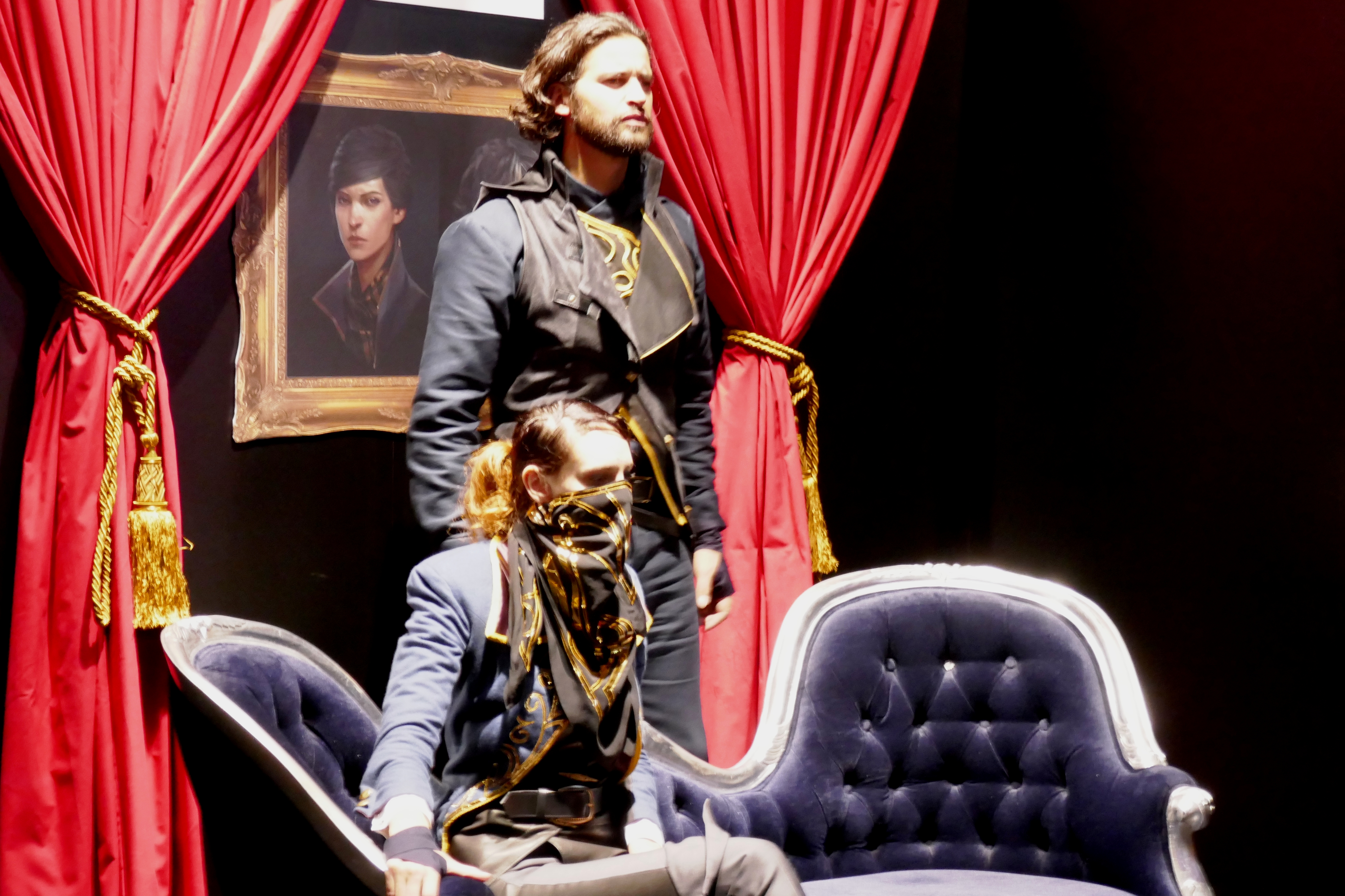 Actors portraying Corvo Attano and Emily Kaldwin on the Dishonored 2 stand at Paris Games Week 2016